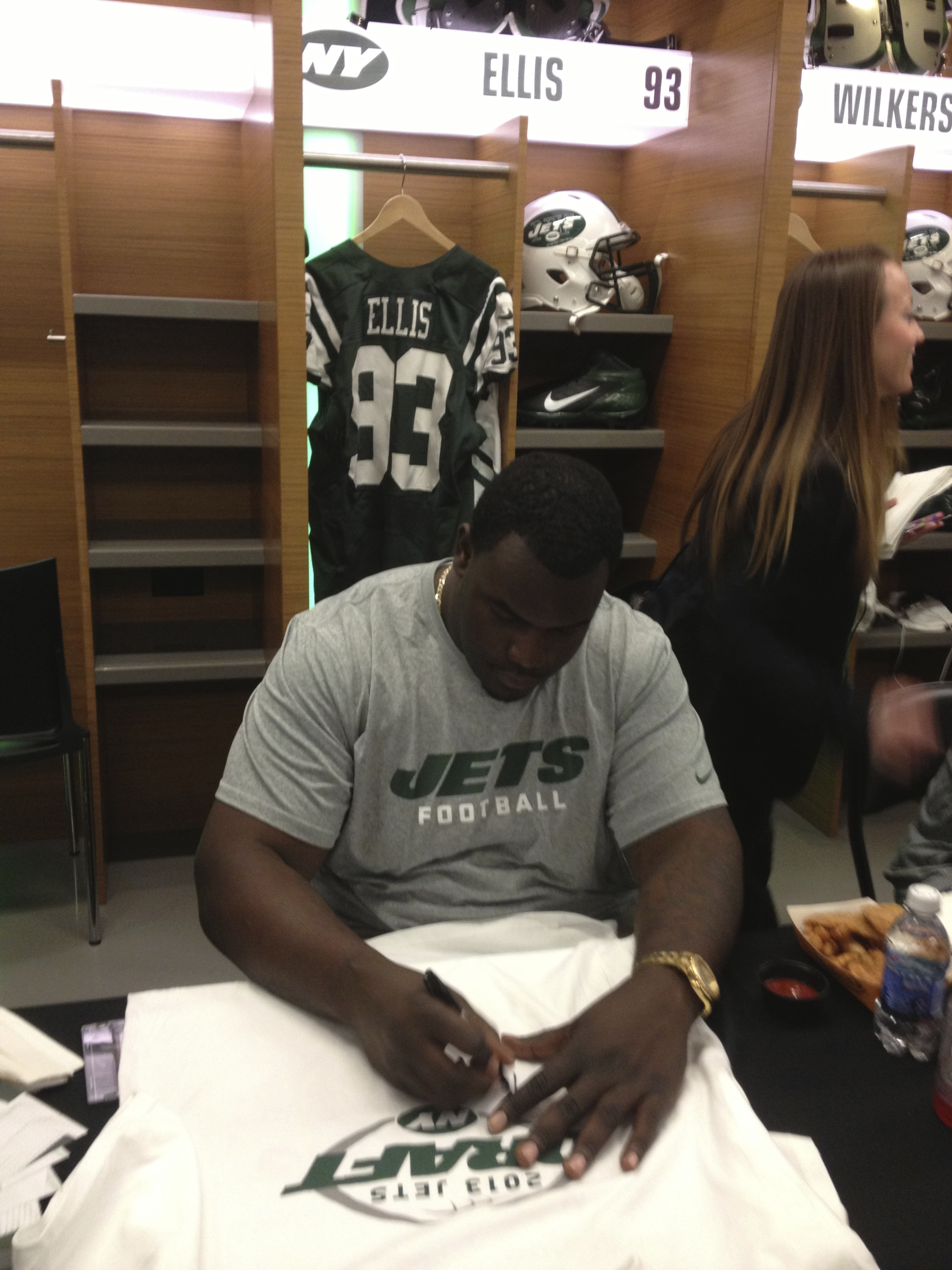 Kenrick Ellis signing autographs at the NY Jets Draft Party in the locker room of MetLife Stadium on April 25, 2013.